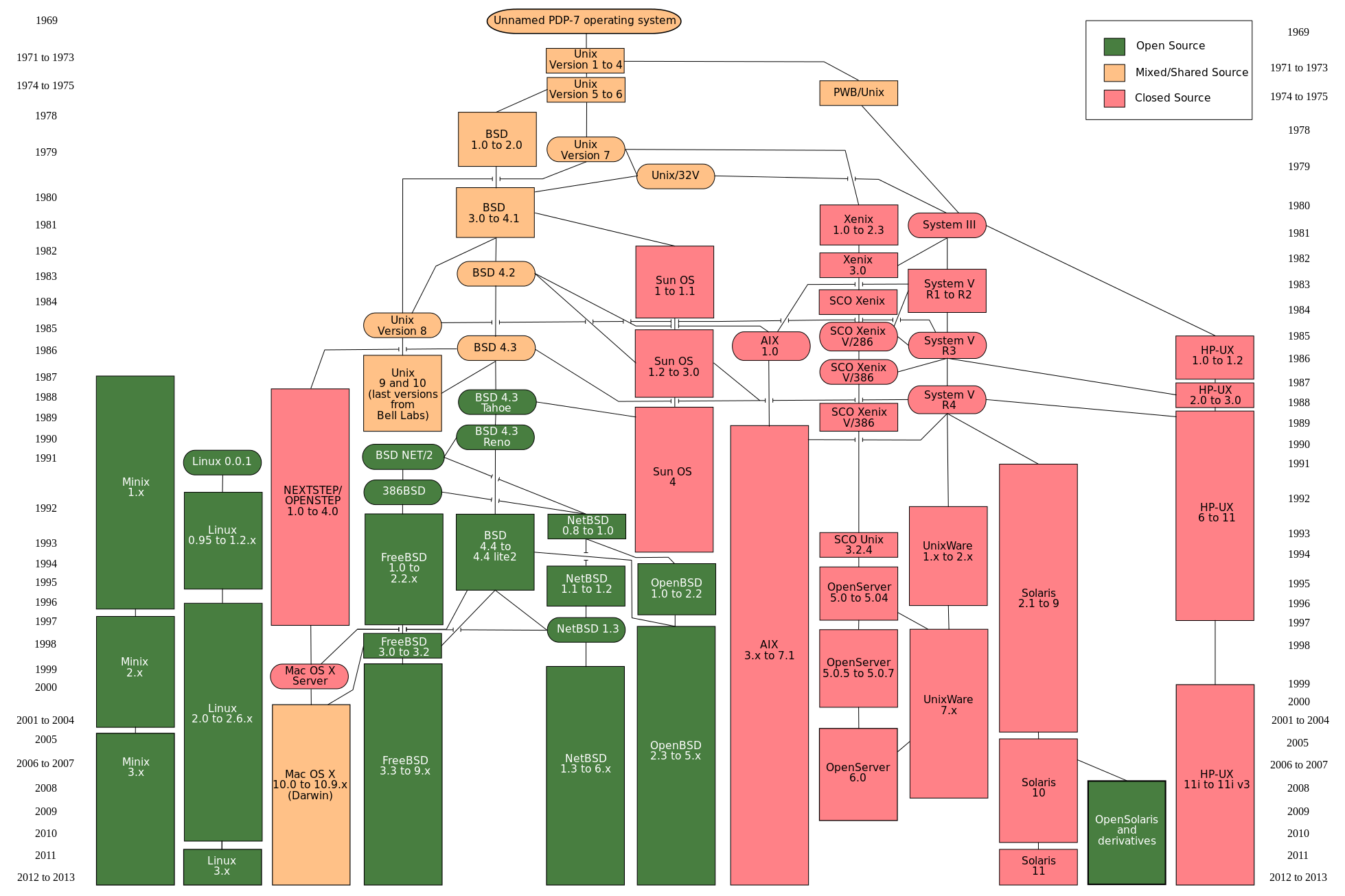 A diagram showing the timeline of Unix system development